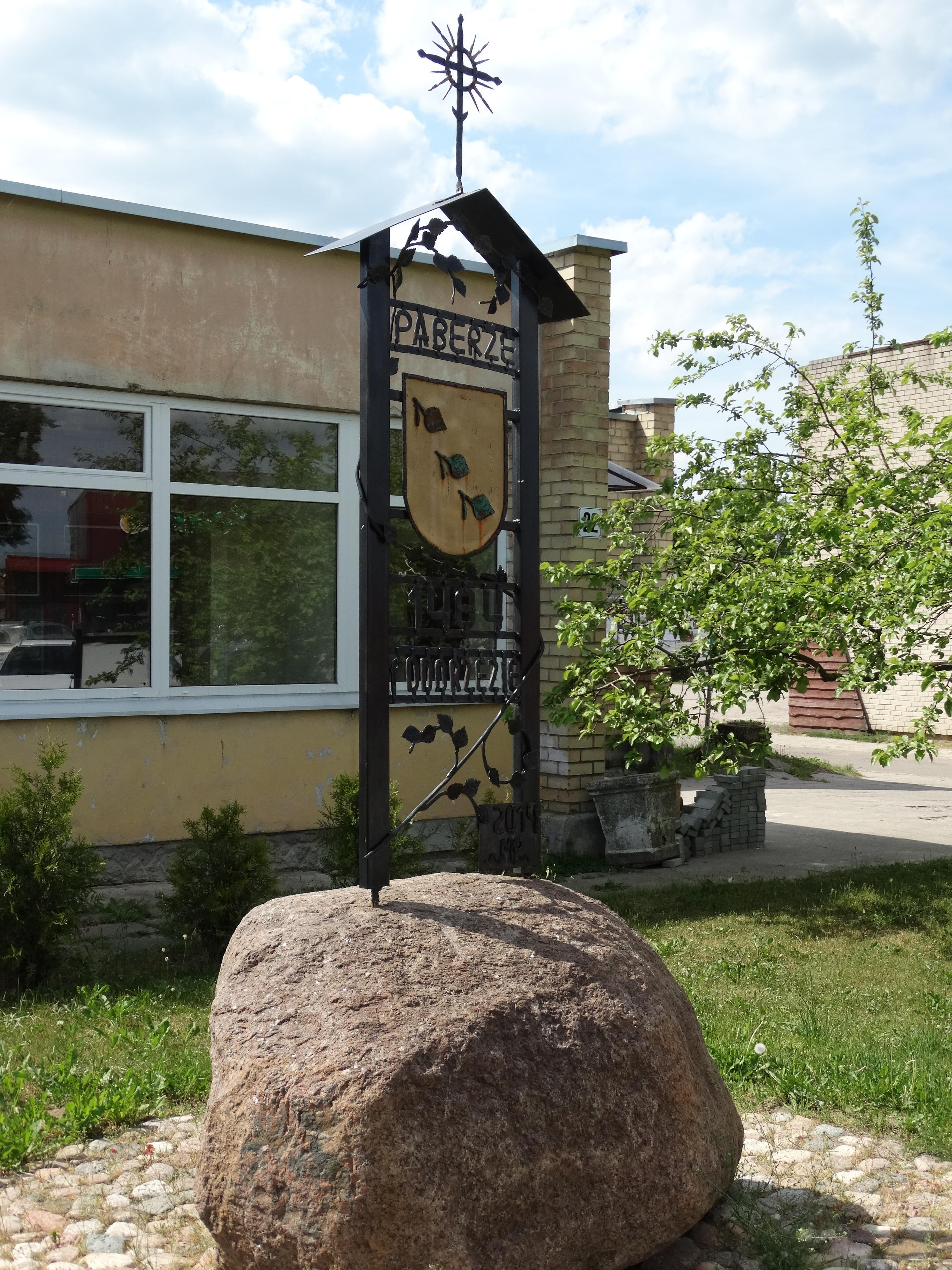 Stone with the town coat of arms, Paberžė, Vilnius District, Lithuania